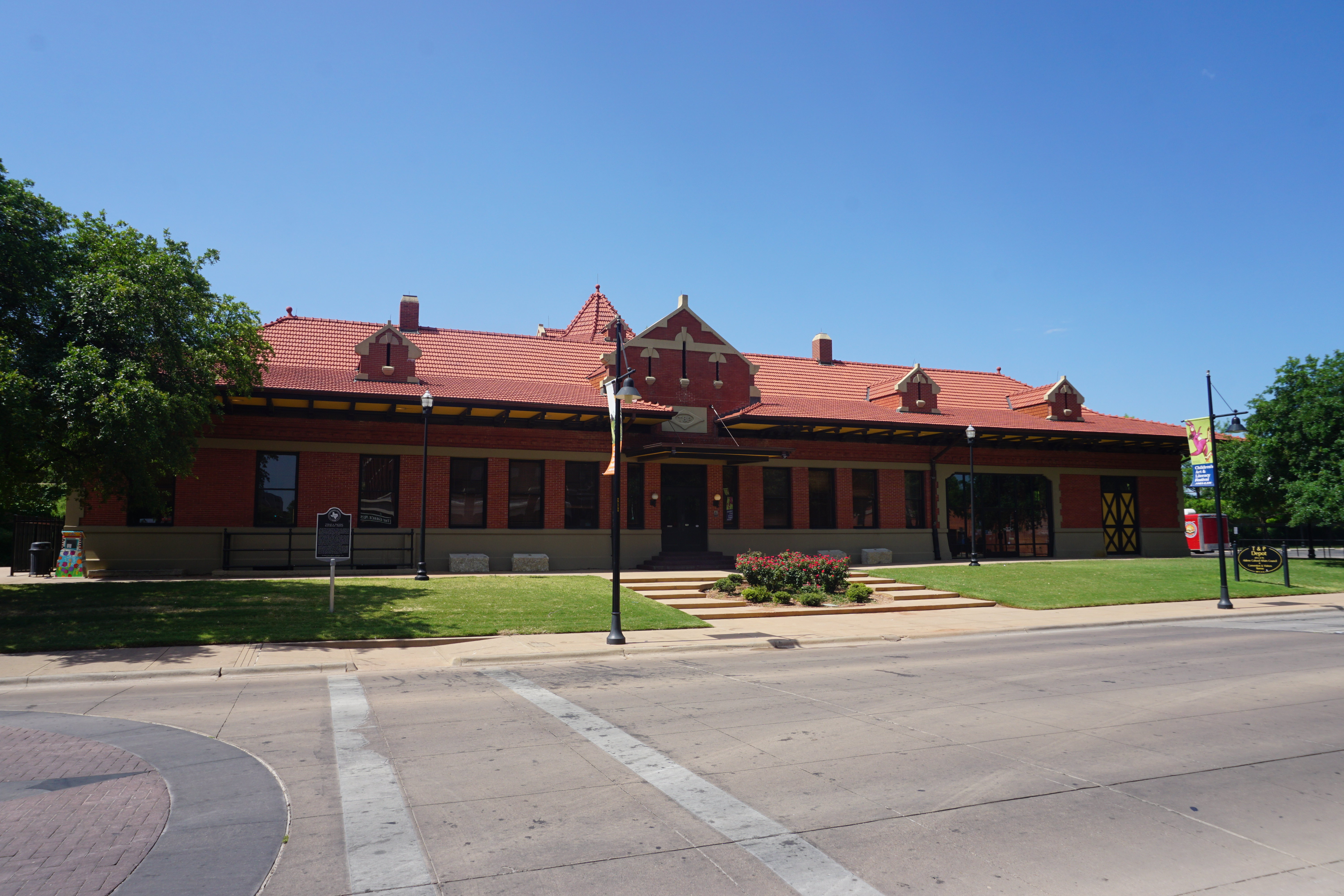 The Abilene Convention and Visitors Bureau (formerly the Texas & Pacific Railroad Station) in Abilene, Texas (United States).